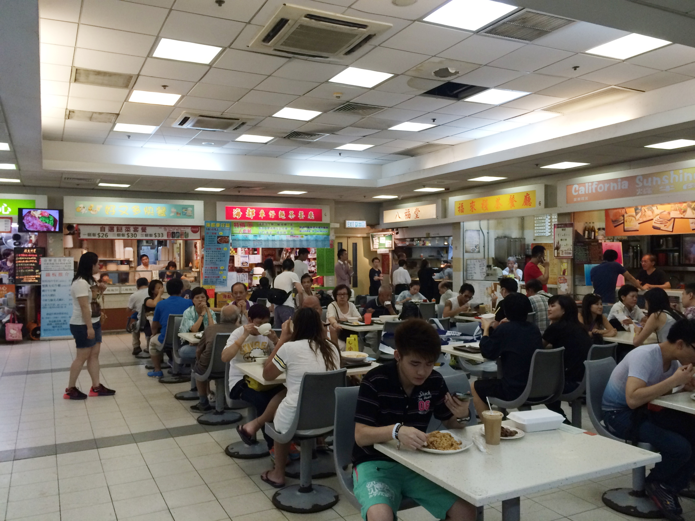 Mong Kok Complex Food Centre